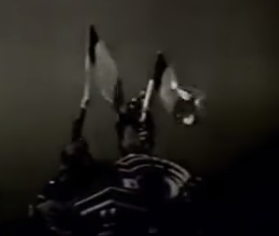 Two Romanian soldiers hoisting national flags above Odessa after their victory in the city's siege